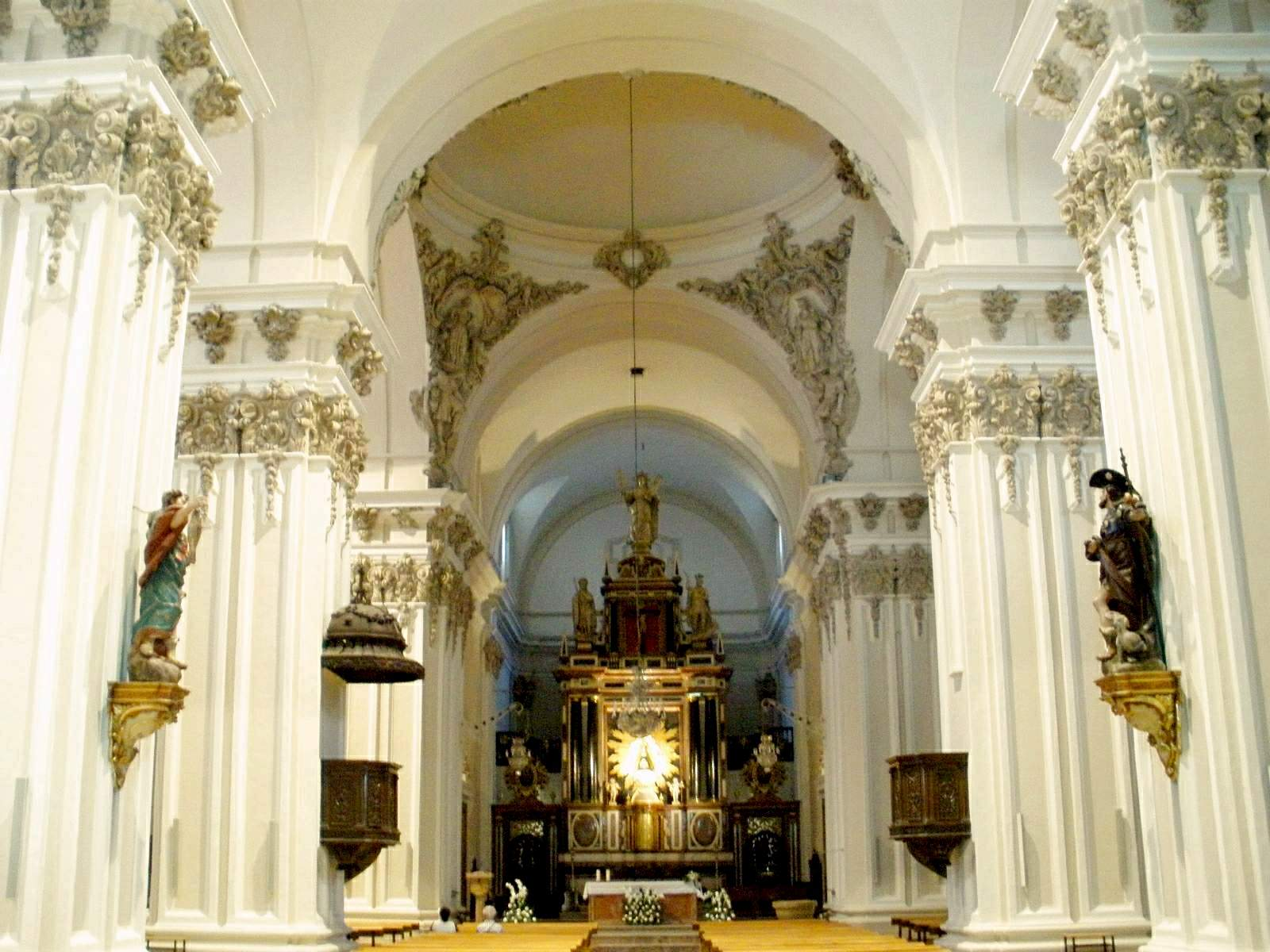 Iglesia de N. S. del Portillo, Zaragoza